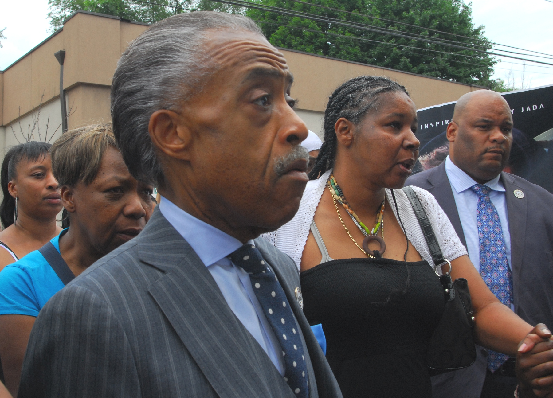 STATEN ISLAND, N.Y. -- Reverend Al Sharpton (of the National Action Network) with Esaw Garner, widow of Eric Garner, at a protest in the Staten Island neighborhood where Eric Garner died while in police custody.